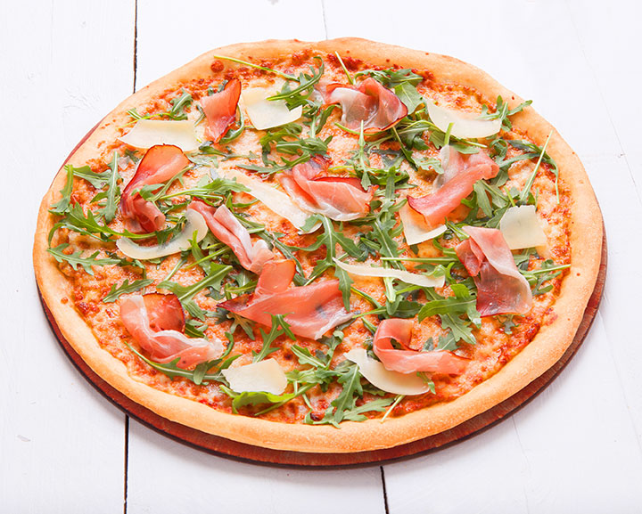 Pizza Prosciutto